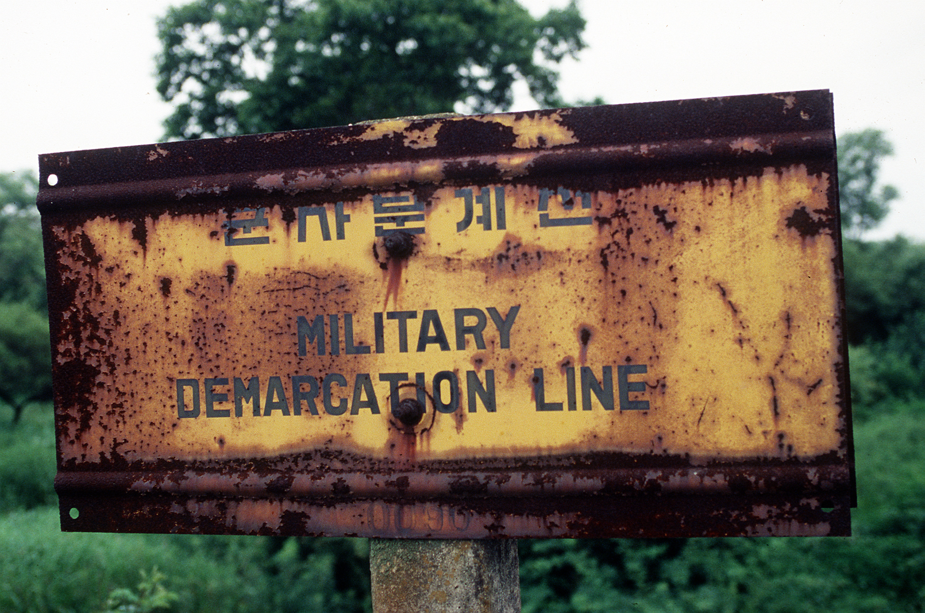 Photo of the Military Demarcation Line (MDL), sign located in the woods at Pan Mun Jom (DMZ), separating North and South Korea.